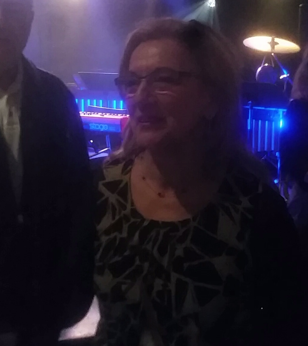 Marie-Josée Simard photographed in Montréal, Quebec, Canada at the Outremont Theatre.